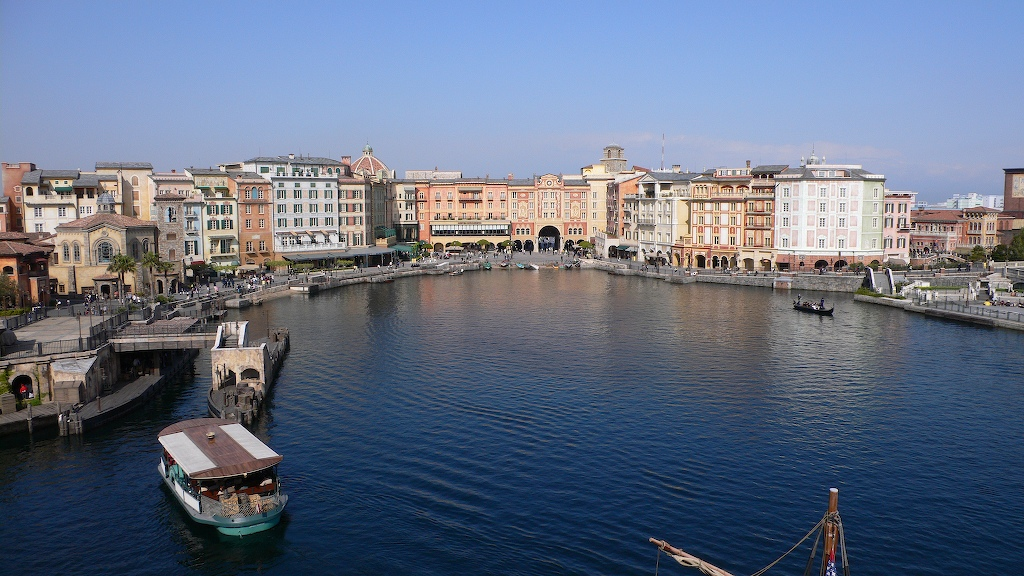 Tokyo DisneySea Medeterranean area